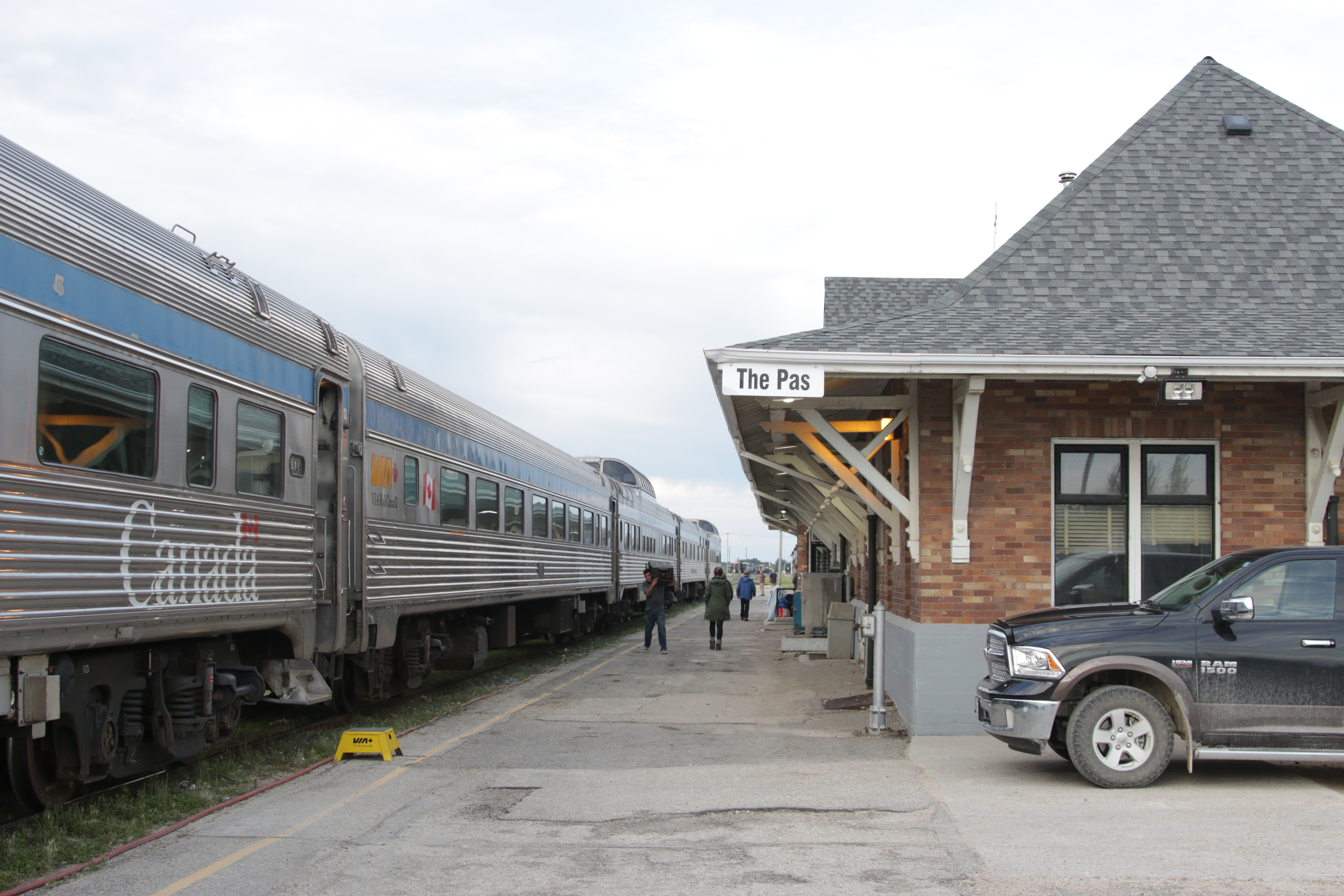 Northbound VIA Train stopped at The Pas Station